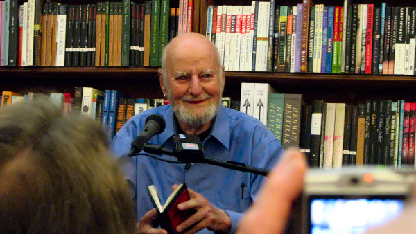 Lawrence FerlinghettiFrom the poetry reading at City Lights Books